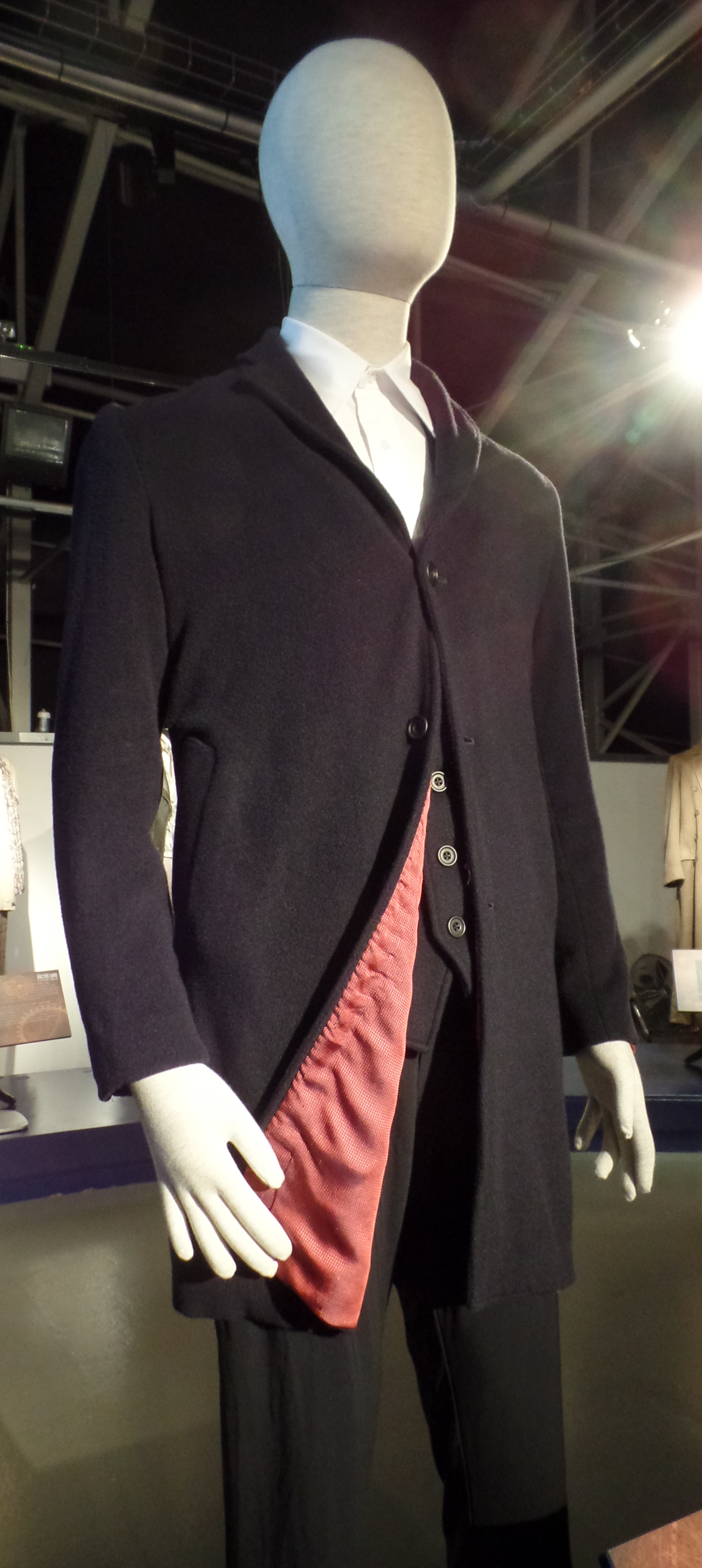 SAMSUNG CAMERA PICTURES Doctor Who Experience